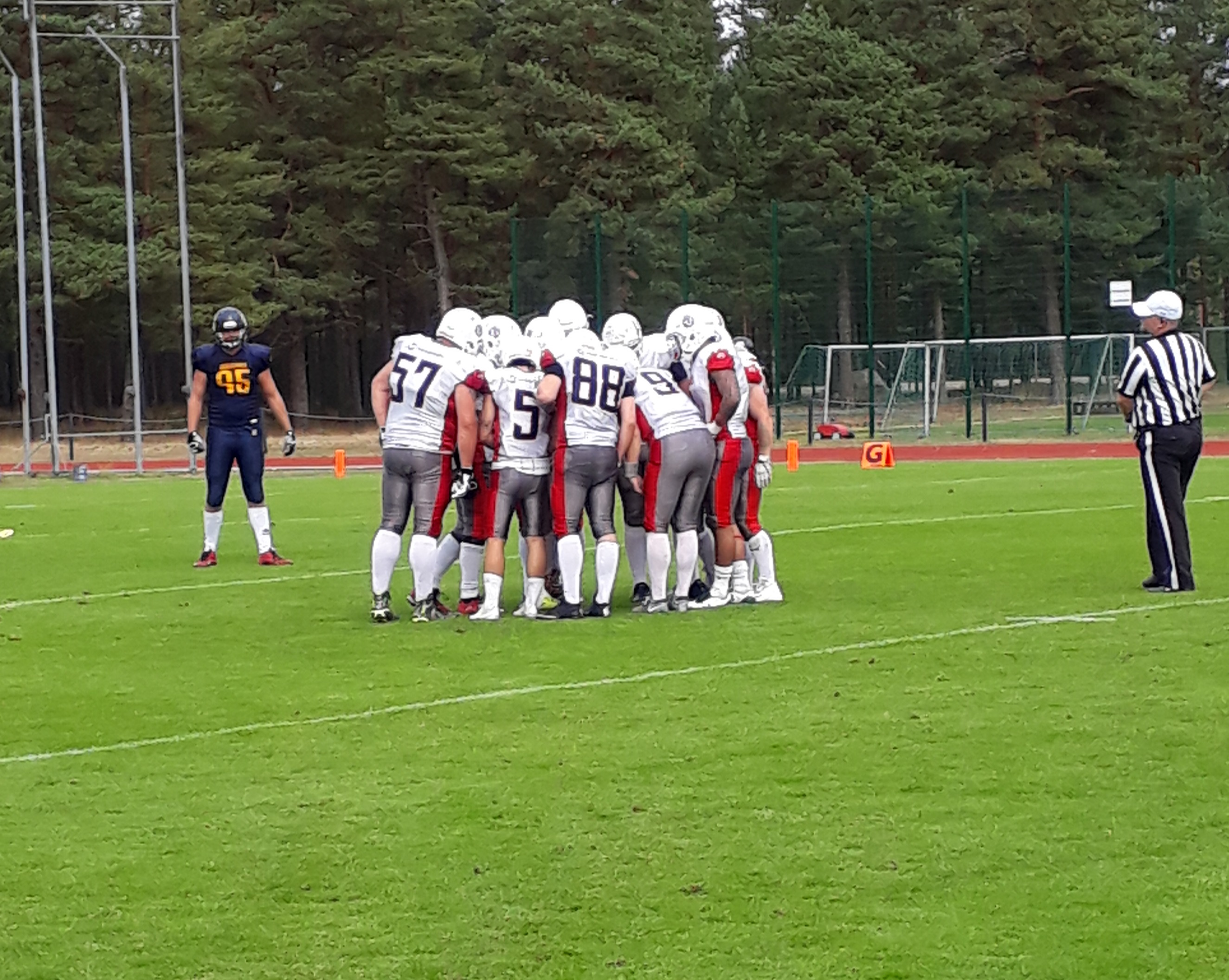 United Newland Crusaders offense huddle. Finnish 1st Division in 2018